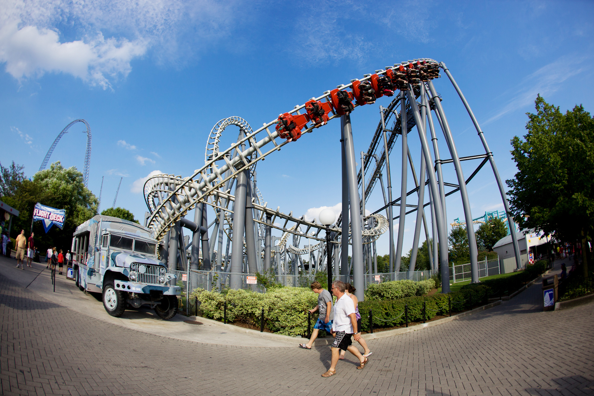 Flight Deck roller coaster at Canada's Wonderland.